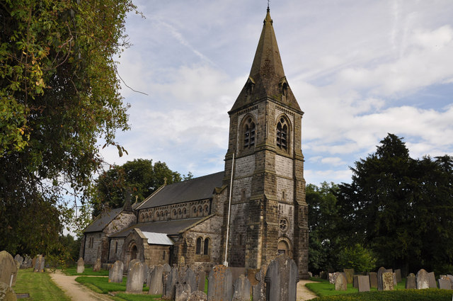 St Peter's parish church, Parwich, Derbyshire, seen from the northwest